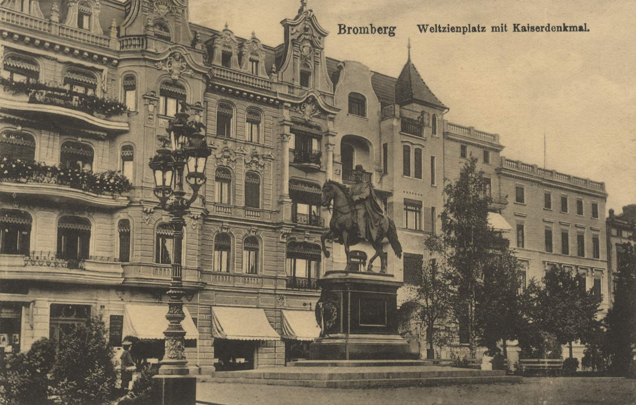 Statue of Emperor Wihelm on Bromberg square